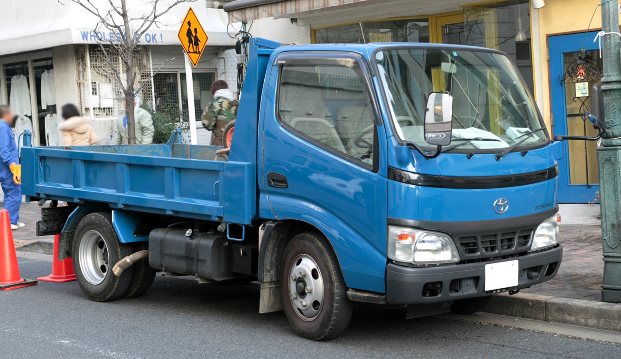 Toyota Toyoace Dump truck